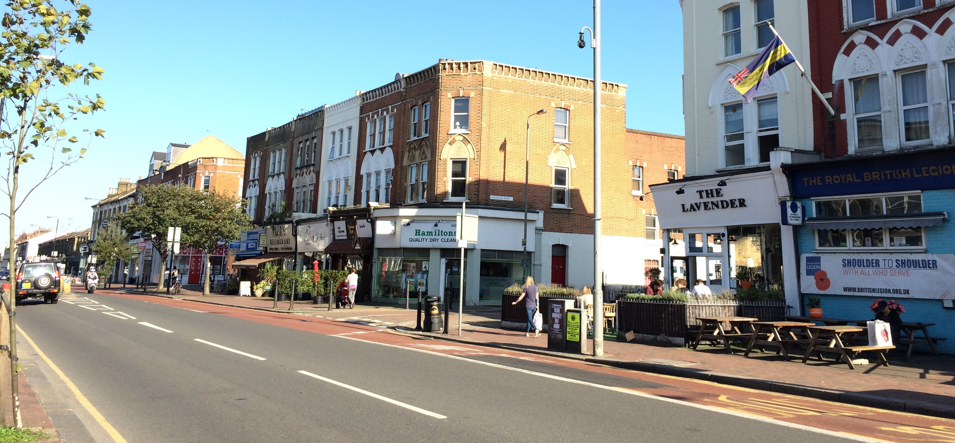 Several Victorian-era houses on Lavender Hill in Battersea, with a mix of restaurants and specialist shops